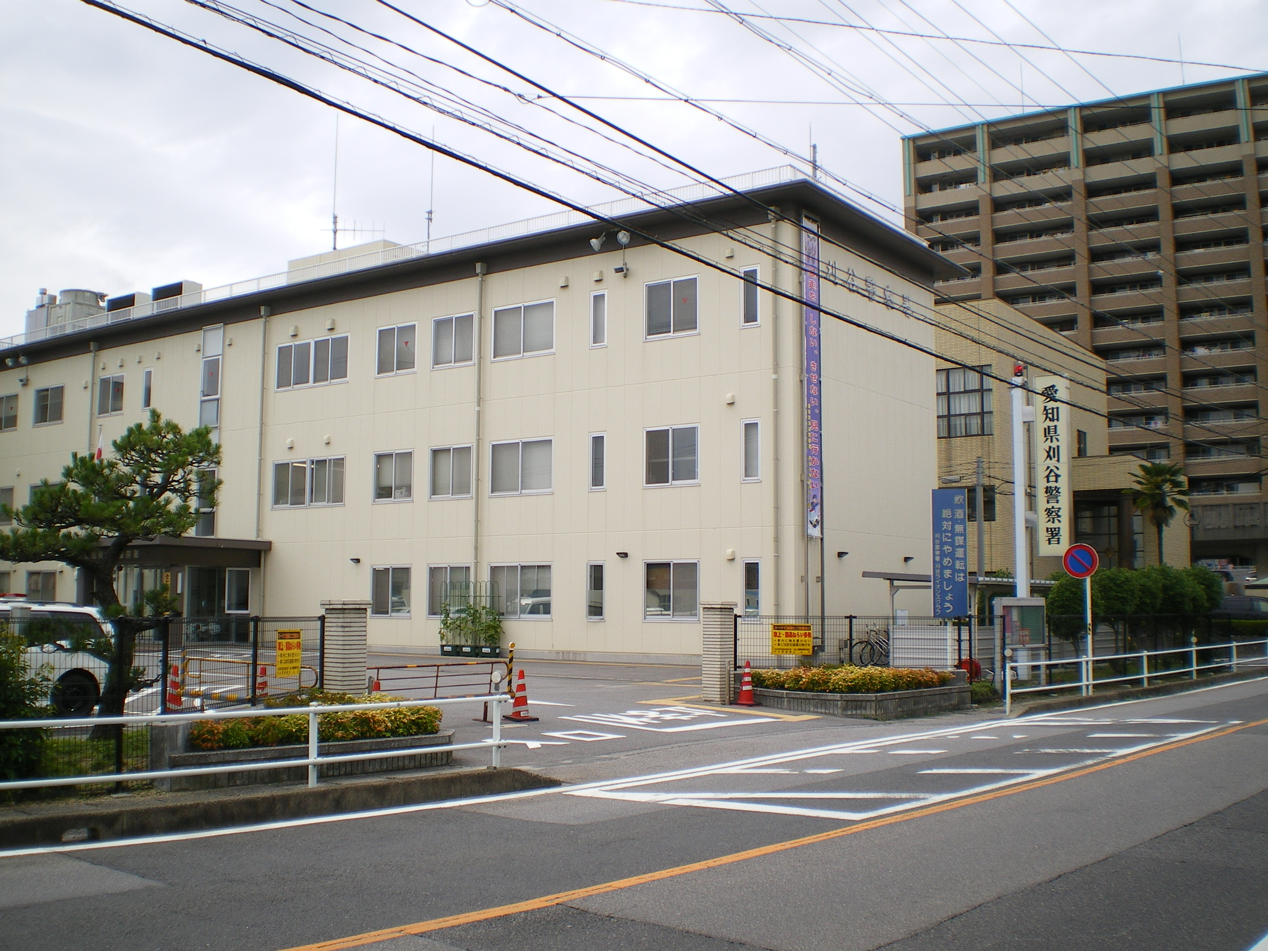 Kariya Police Station, Kariya, Aichi Prefecture.